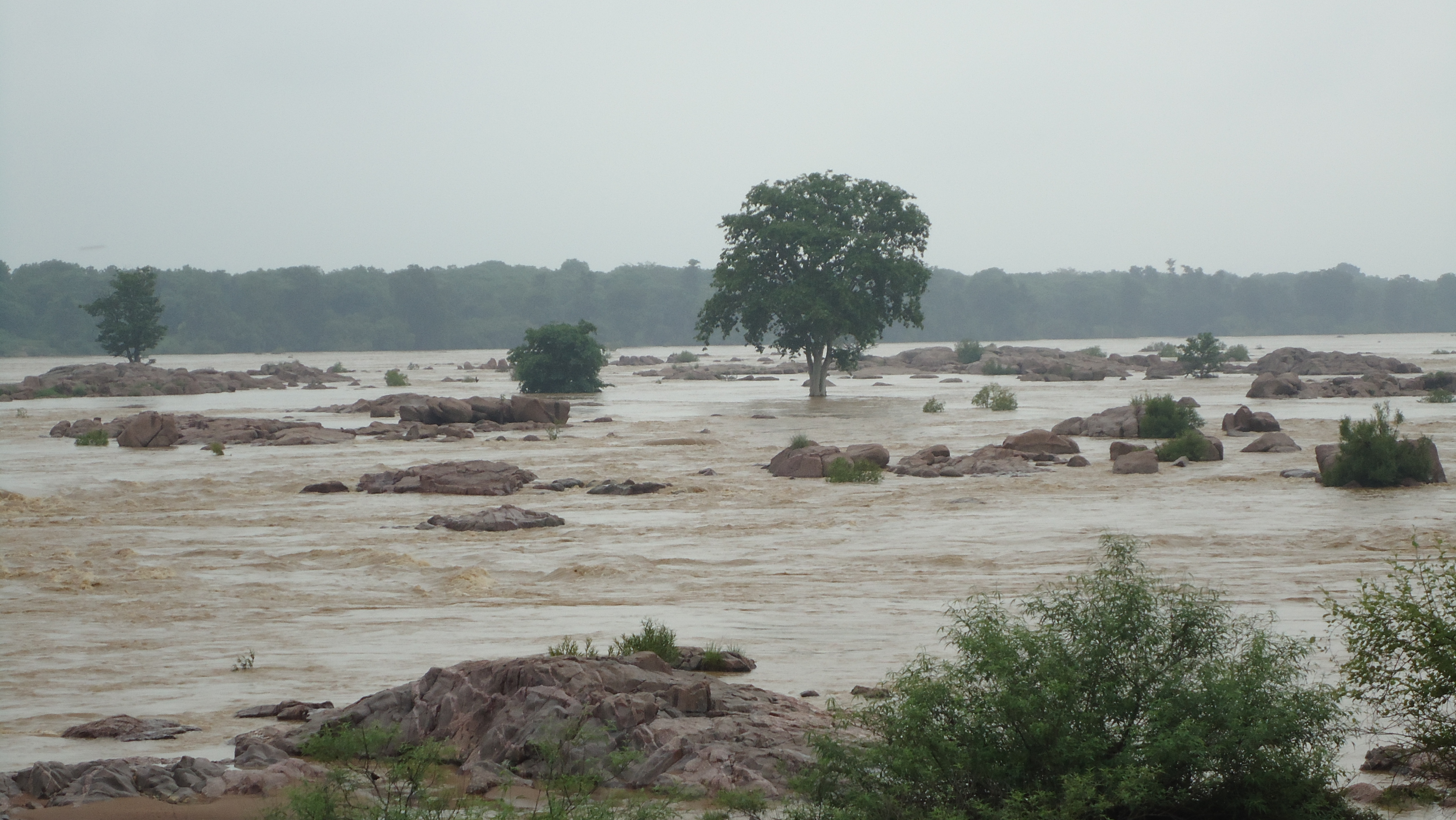 view of raneh fall.